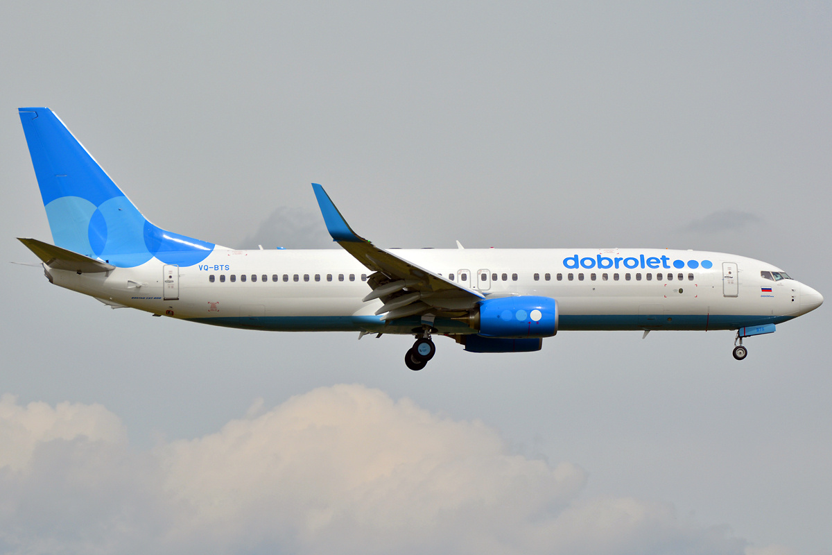 Dobrolet Boeing 737-800 landing at Sheremetyevo International Airport